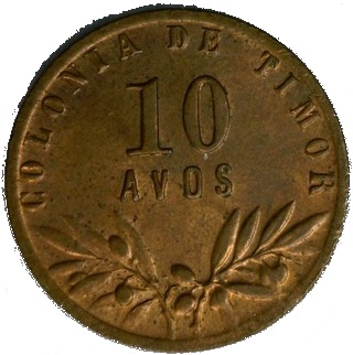 10 Avos coin of Macao